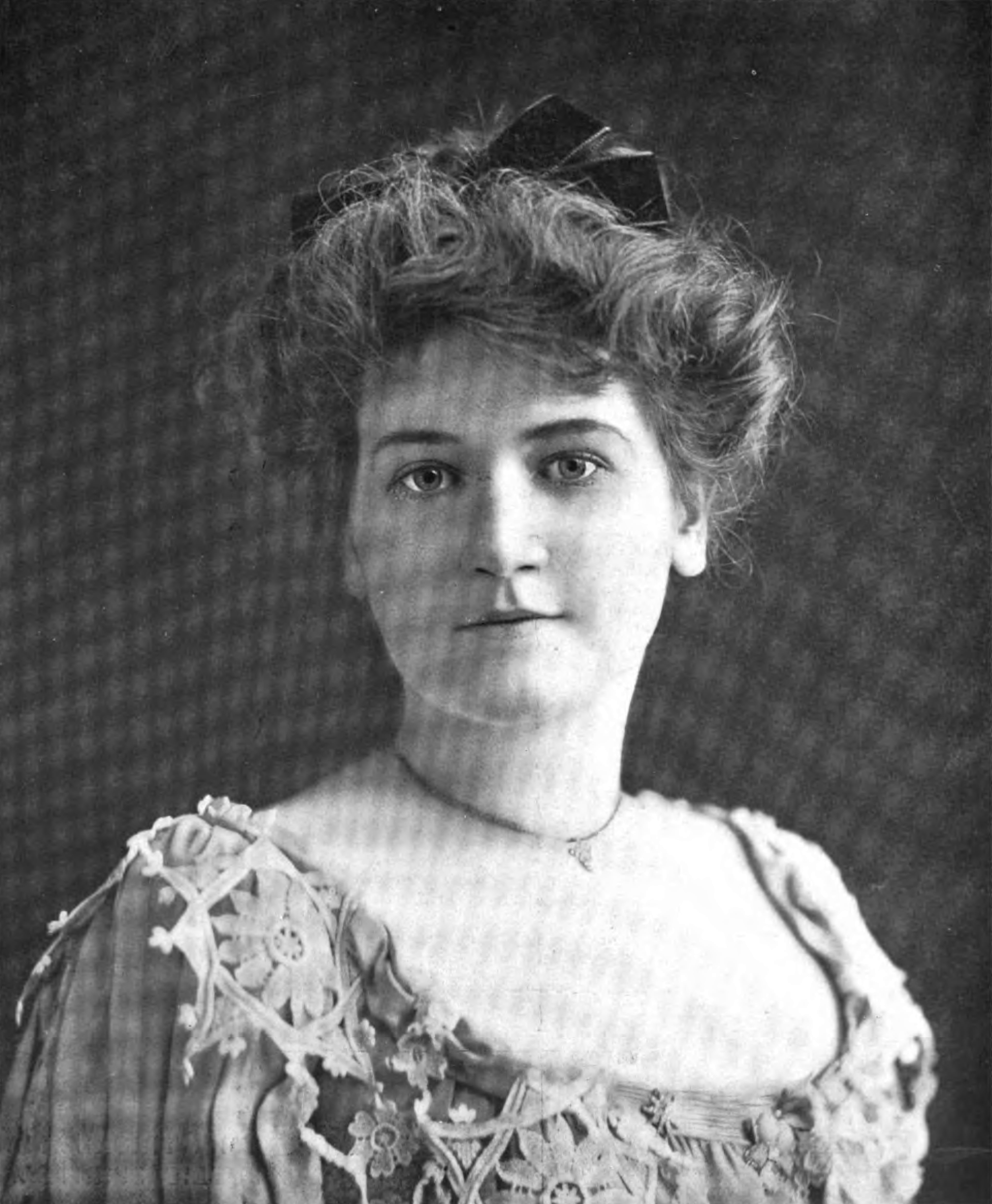 Lotta Linthicum, from a 1904 publication; a young white woman with her hair in an updo, wearing a lacy gown with a deep-scooped neckline.